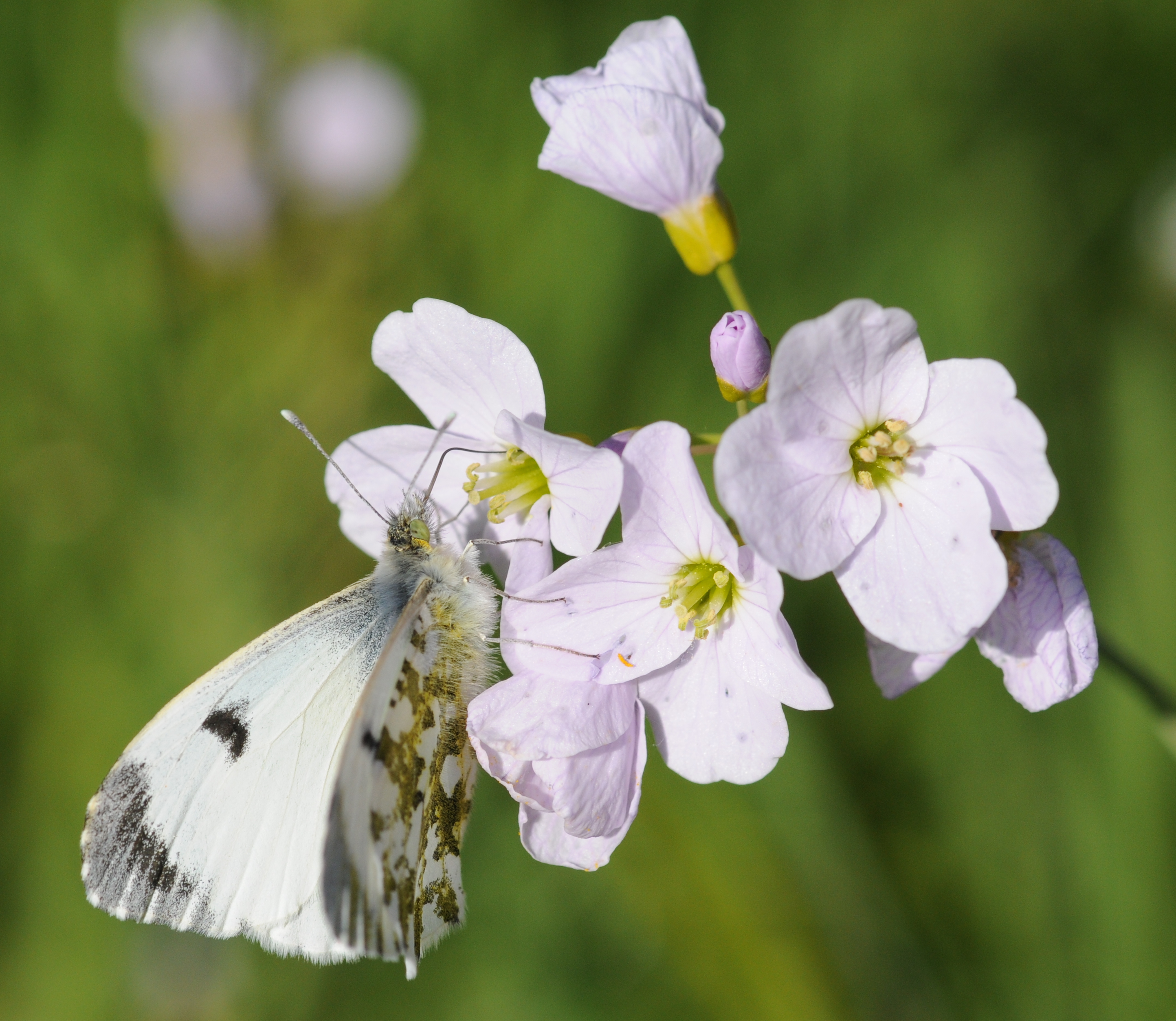 Orange Tip on some flowers